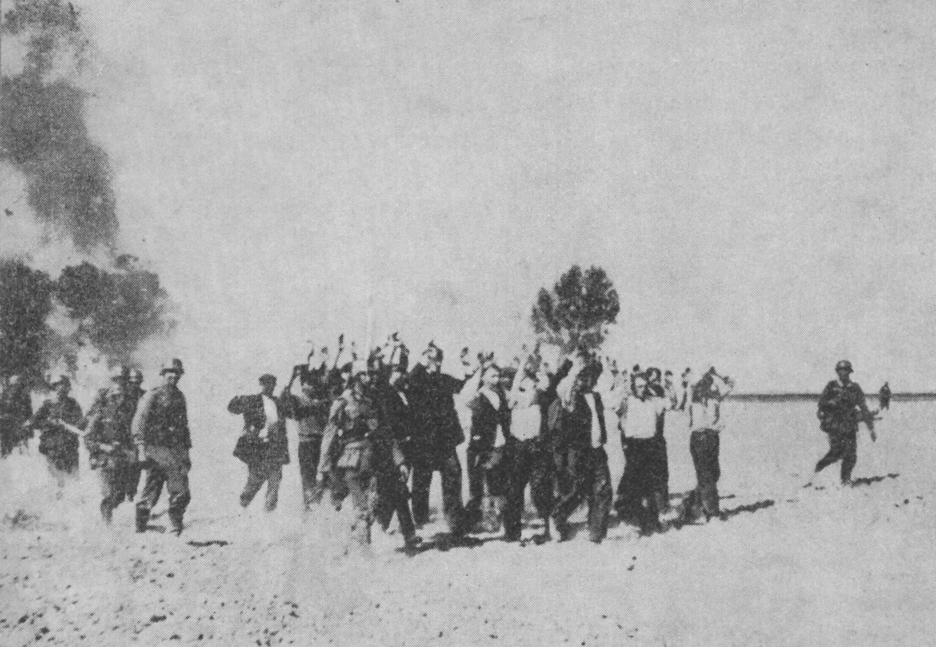 Polish men led to execution by German soldiers. This photo was probably taken during the German invasion of Poland in September 1939. Original inscription at the back of the photo (in German) reads: “Polnische Civilisten die auf uns geschossen haben. In Hintergrund Brennendes Dorf” (en. Polish civilans who shot to us. Burning village in the background).